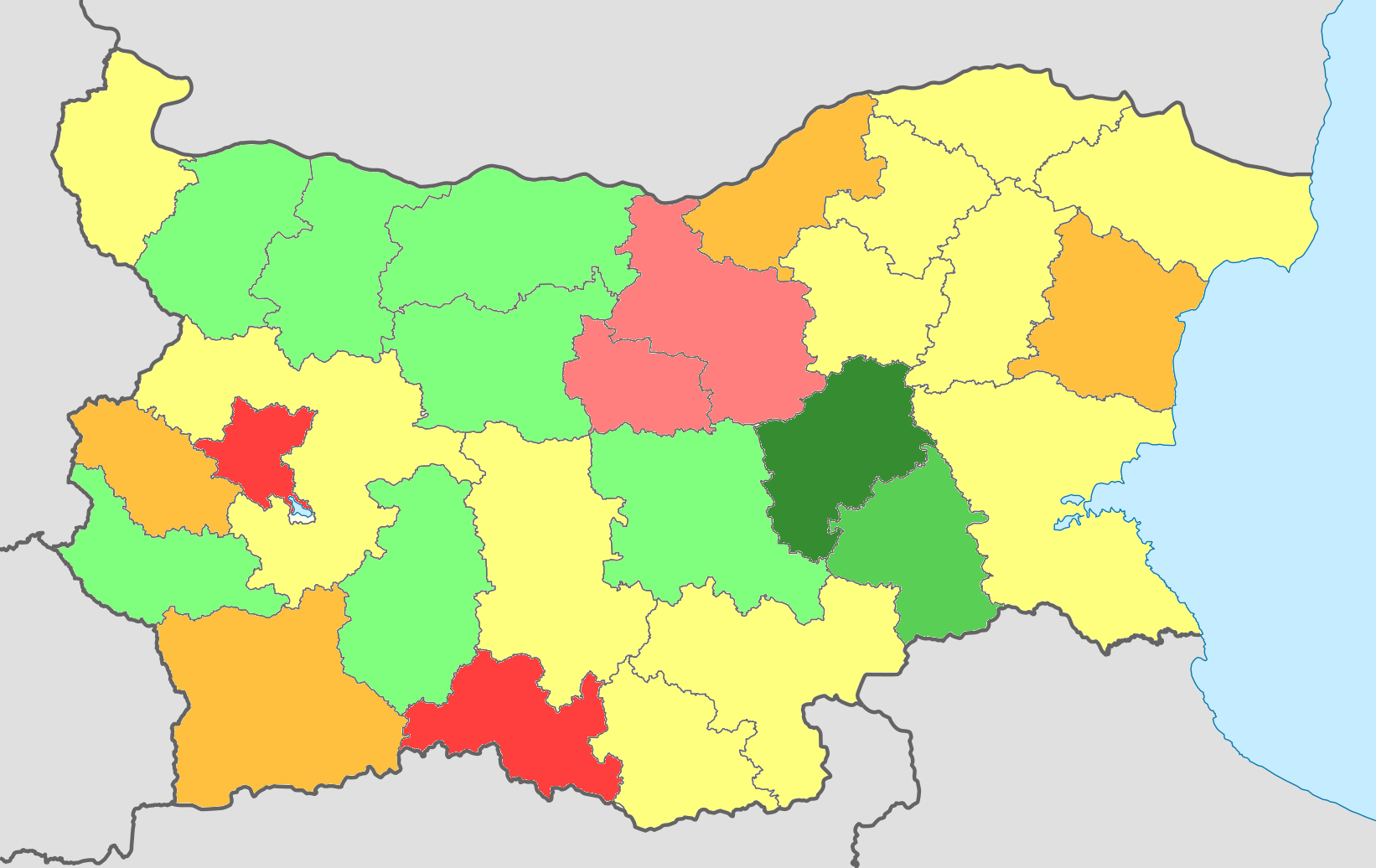 Data is from Eurostat